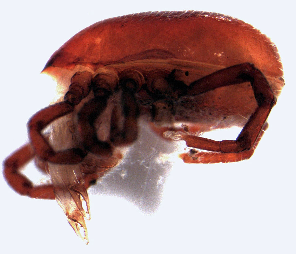 allothyrid mite